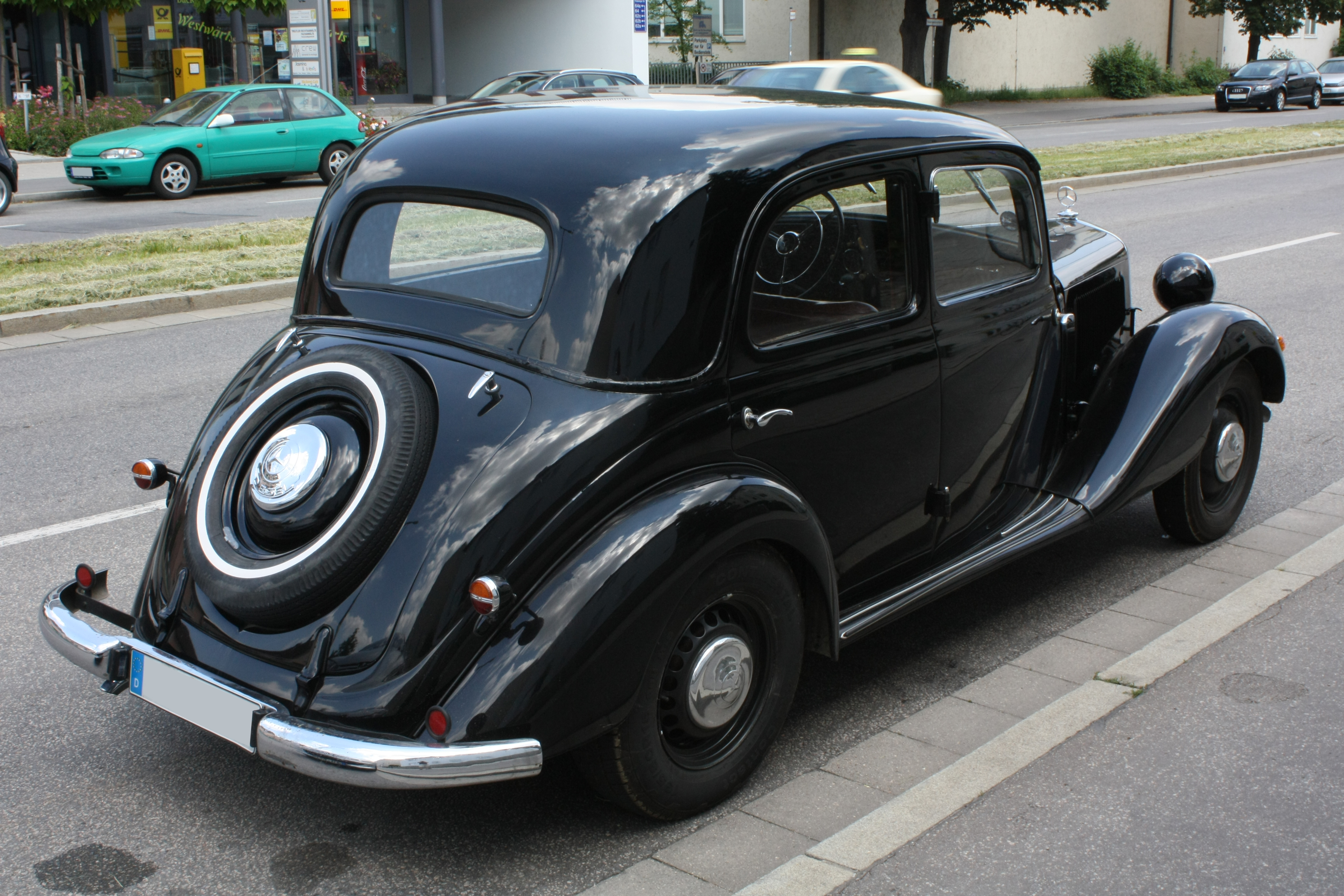 Mercedes-Benz 170V